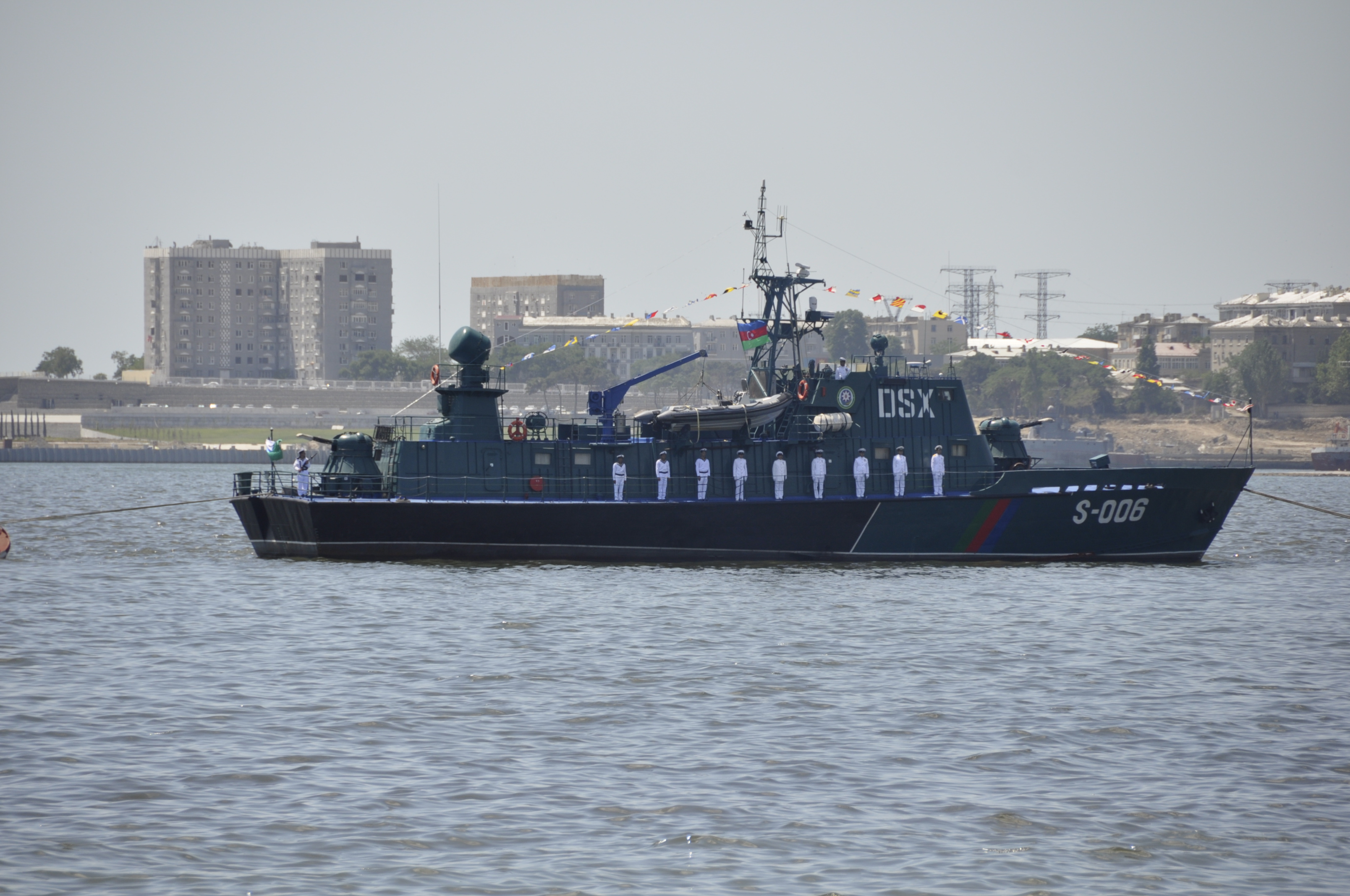 Military parade in Baku on an Army Day